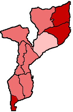 COVID-19 pandemic distribution in Mozambique, per provinces